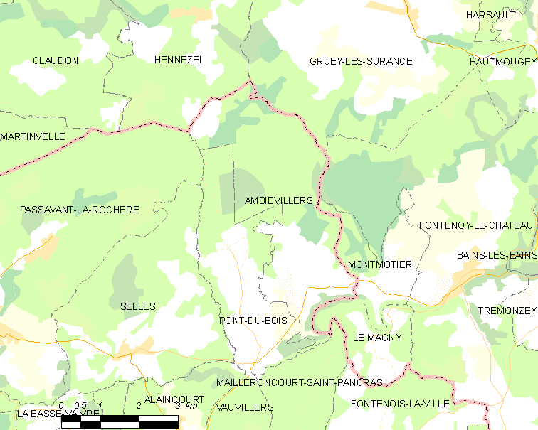 Map of French municipality